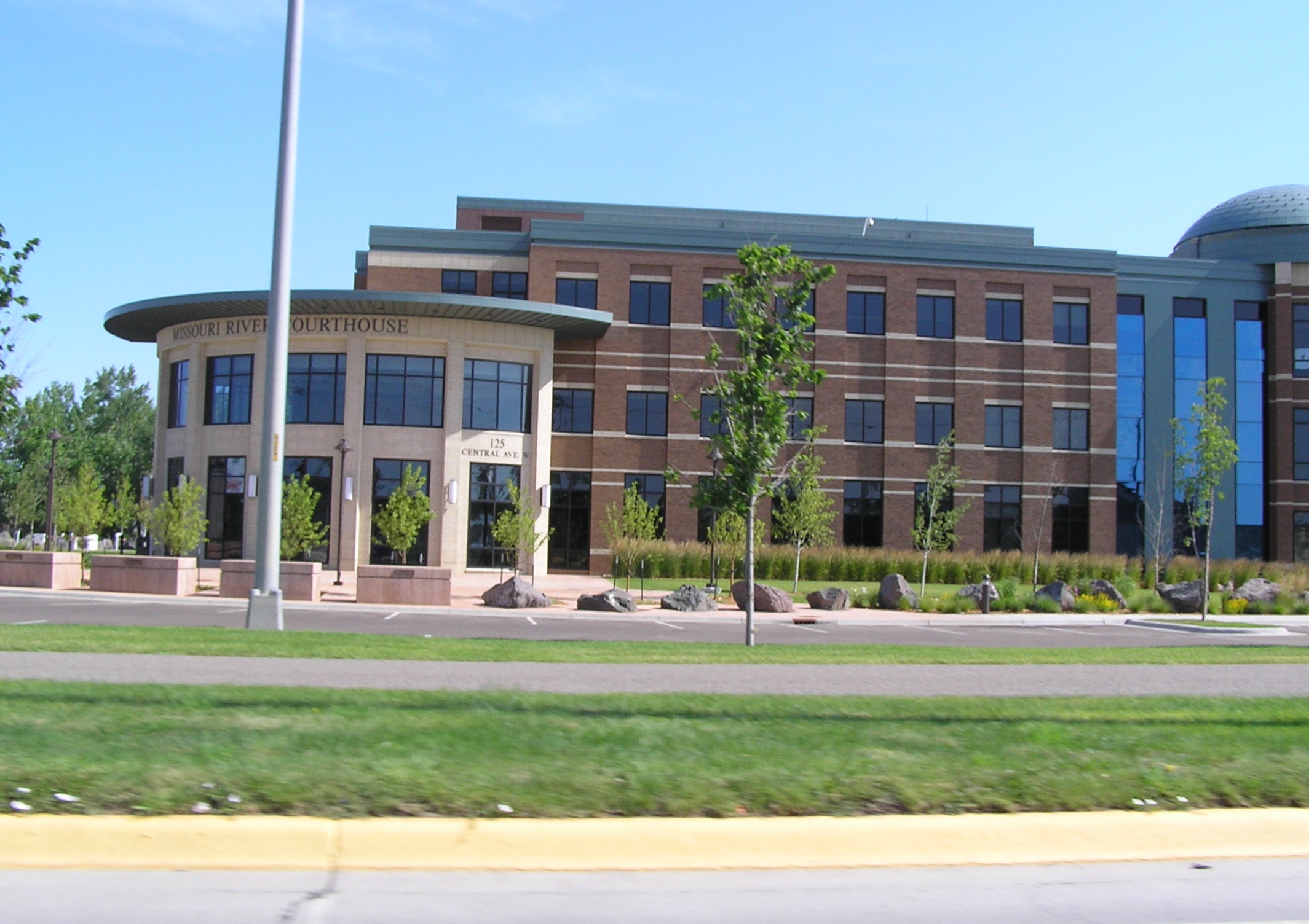 New Federal Courthouse, Great Falls Montana, USA